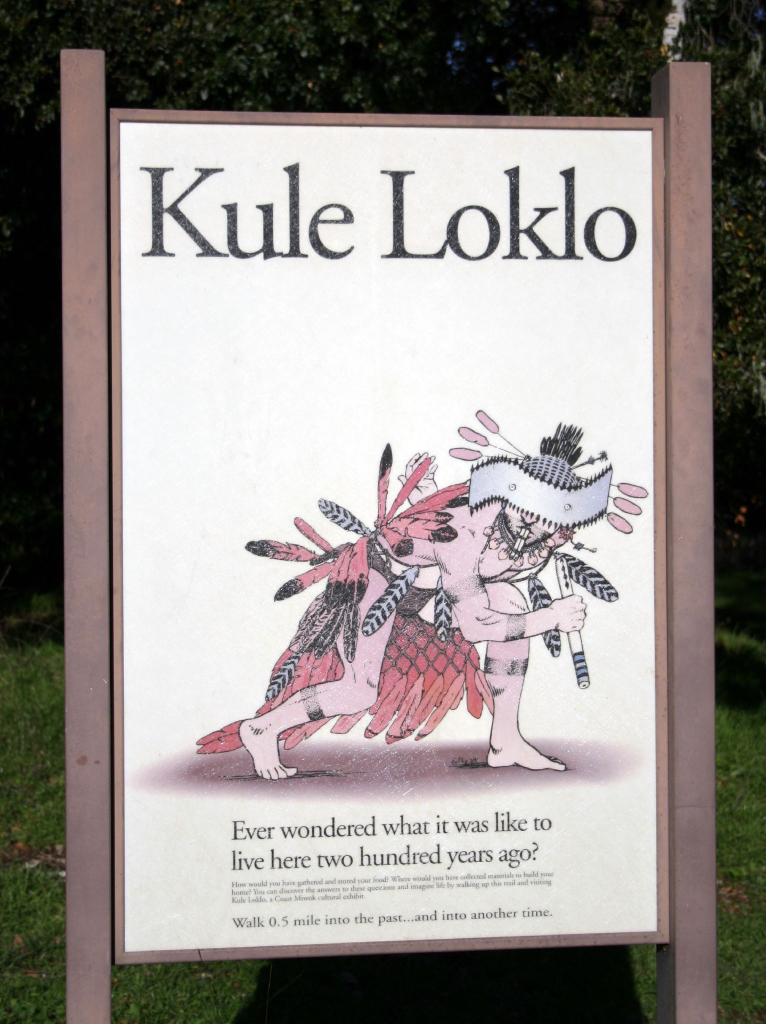 Entrance sign to the Kule Loklo site, a recreated Coast Miwok village adjacent to the the Point Reyes National Seashore visitor center.